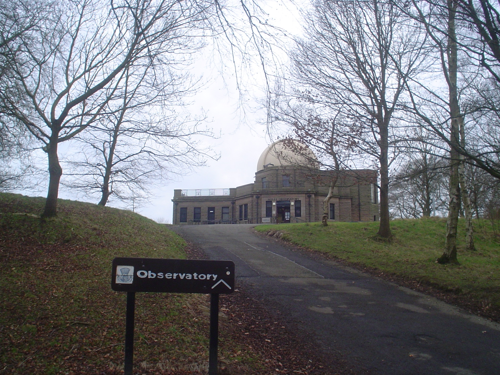 Taken with Cybershot DSC-P32 - Cyril Thomas 23:35, 13 March 2007 (UTC)